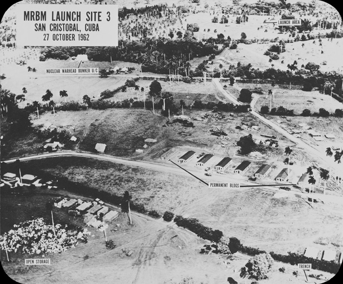 MRBM Field Launch Site, San Cristobal No. 1, October 14, 1962, Cuba Crisis